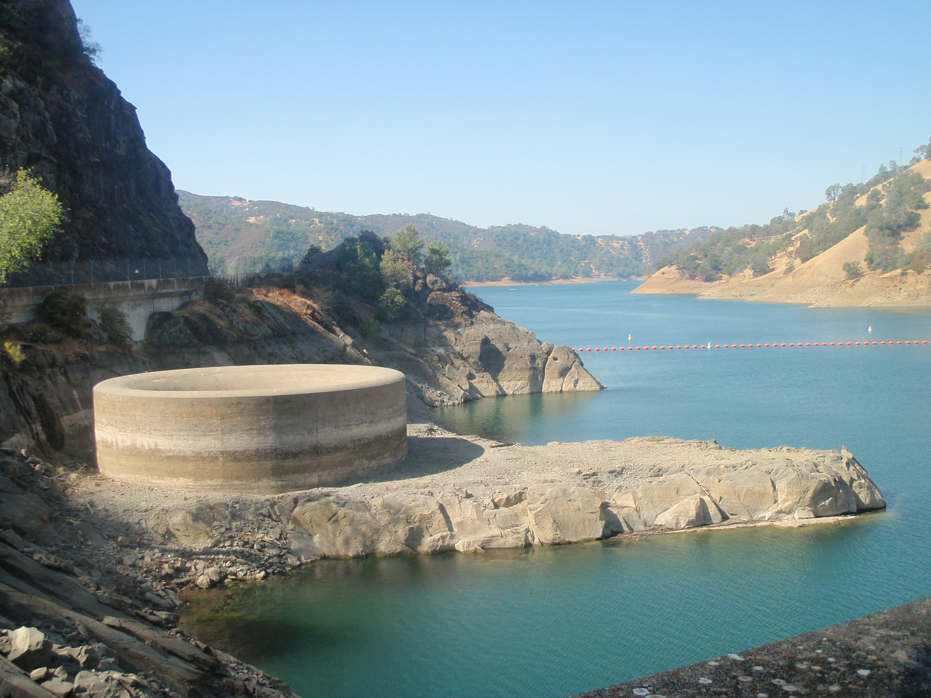 A view of the Monticello Dam "glory hole" on Saturday, October 10, 2009. The crest of the spillway is at 439.96 feet (134.10 m). In this picture, the water level is at 407.72 feet (124.27 m), or 32.24 feet (9.83 m) below the crest.